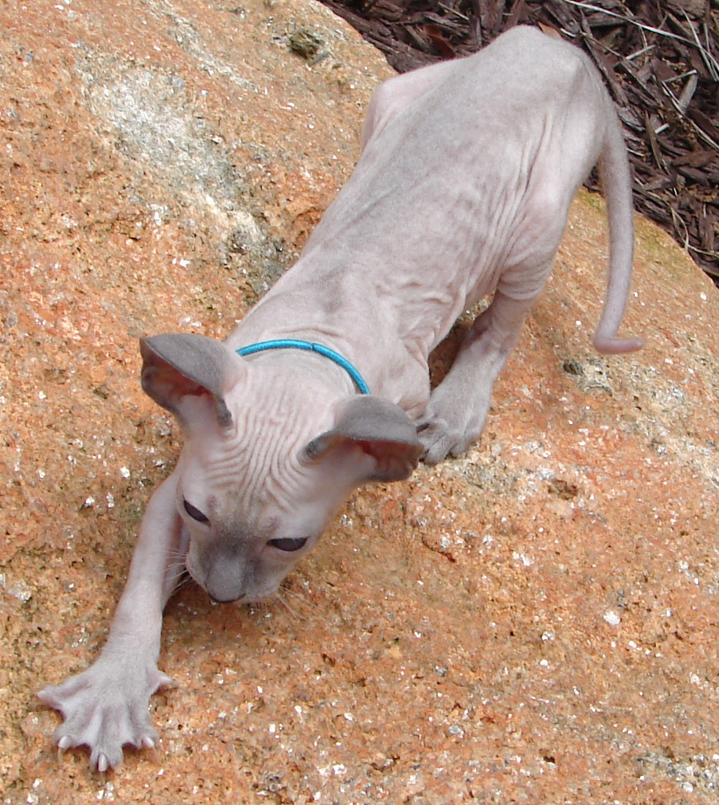 Young Peterbald on the hunt!